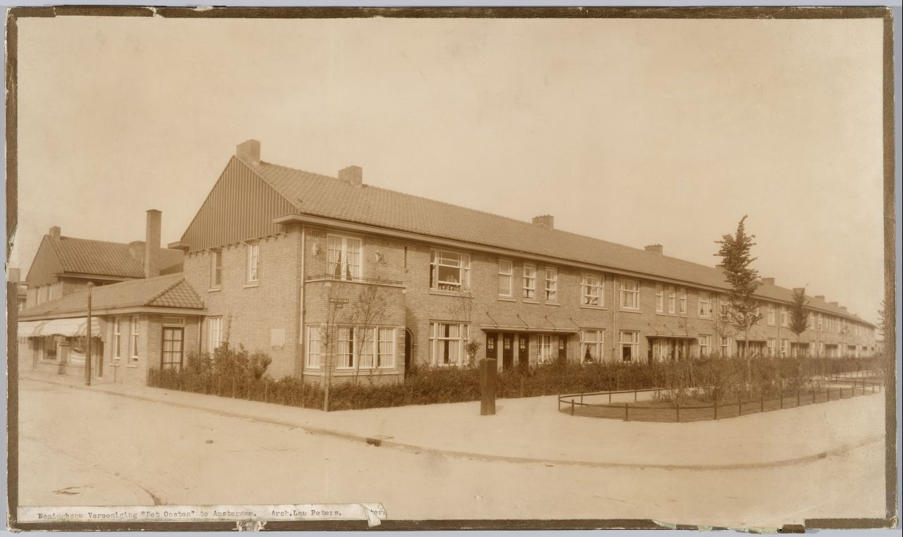 Woonhuizen woningbouwvereniging "Het Oosten", Kamperfoelieweg, Amsterdam. Architect: L. Peters Fotograaf: onbekend. Collectie NAi / TENT_n257 URL van deze afbeelding: Meer foto's uit deze collectie kunt u bekijken in de Collectiedatabase van het NAi. Niet van alle gebouwen en interieurs zijn alle gegevens bekend. Heeft u meer informatie of weet u het adres van een gebouw? Laat dan een reactie achter (als u ingelogd bent bij Flickr) of stuur een mailtje naar: Al deze foto's zijn gemaakt in de eerste helft van de twintigste eeuw. Wij zijn benieuwd hoe deze gebouwen er vandaag de dag uitzien. Heeft u recente foto's van deze gebouwen of locaties, voeg ze dan toe als commentaar. U kunt een eigen Flickr-foto toevoegen door de URL ervan tussen vierkante haken in het commentaarveld te plakken. Houses for "Het Oosten" public utility housing enterprise, Kamperfoelieweg, Amsterdam. Architect: L. Peters. Photographer: unknown. NAI Collection / TENT_n257 Persistent URL: For more photographs from this collection, please visit the NAI Collection Database You can help us gain more knowledge on the content of our collection by adding a comment with information. If you do not wish to log in, you can write an e-mail to: All these pictures are taken in the first half of the twentieth century. We are curious to learn how these buildings look like today. If you have recently taken photographs of these buildings or locations, please add them to your comment. If you'd like to include a Flickr photo, simply copy and paste its URL between square brackets in the commentary-field.